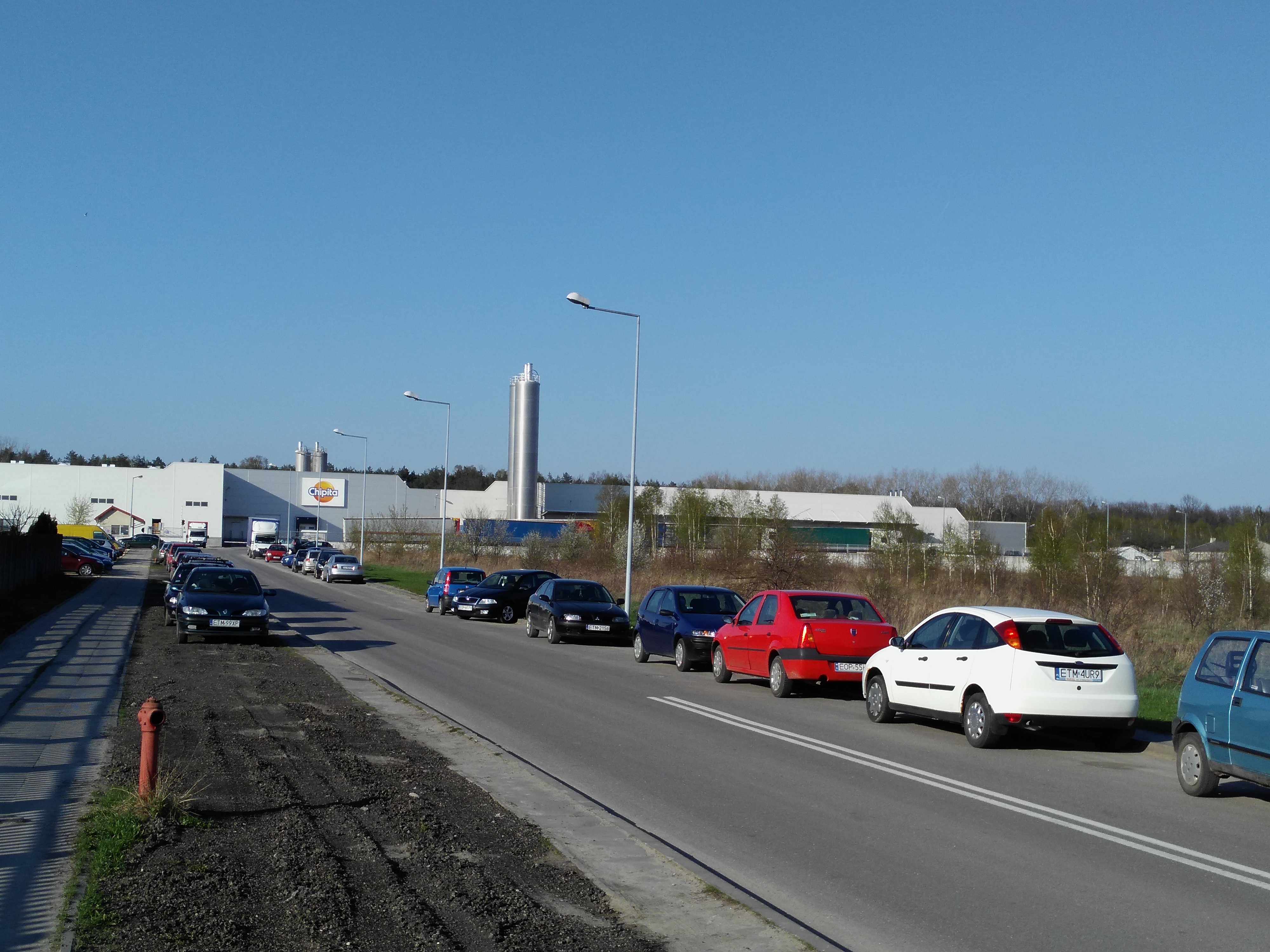 Tomaszowska fabryka Chipity producenta rogalików 7 days